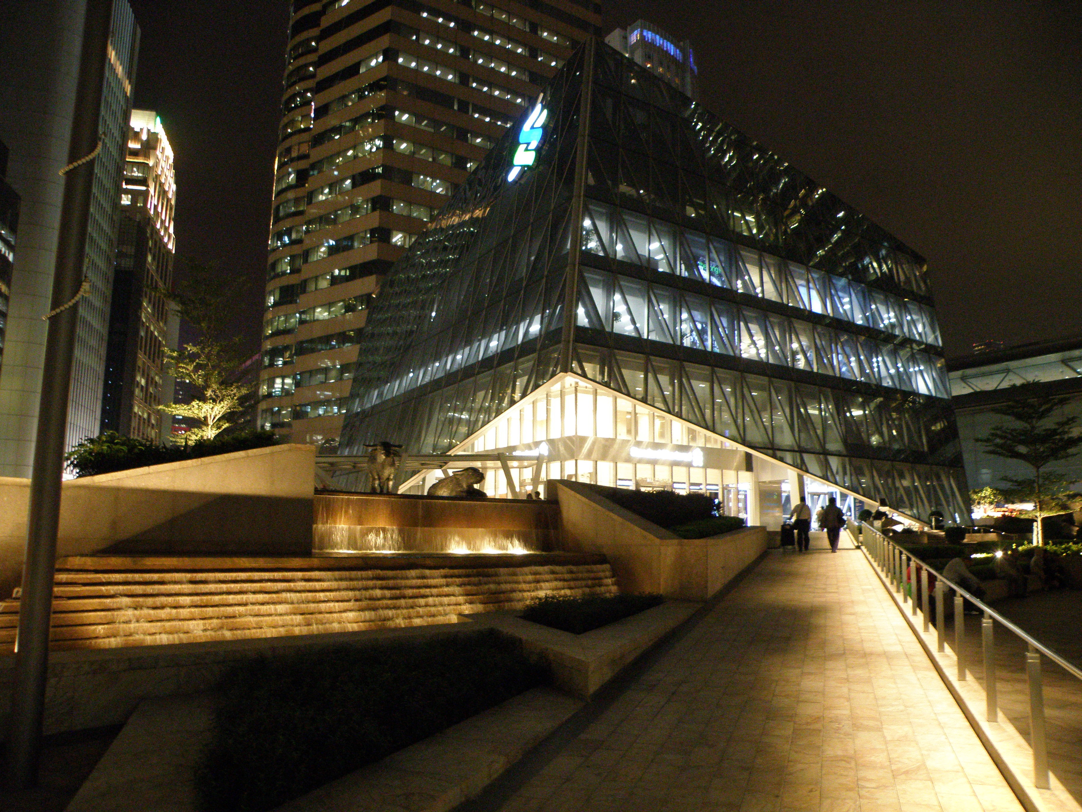 The Forum at Exchange Square, Central, Hong Kong.